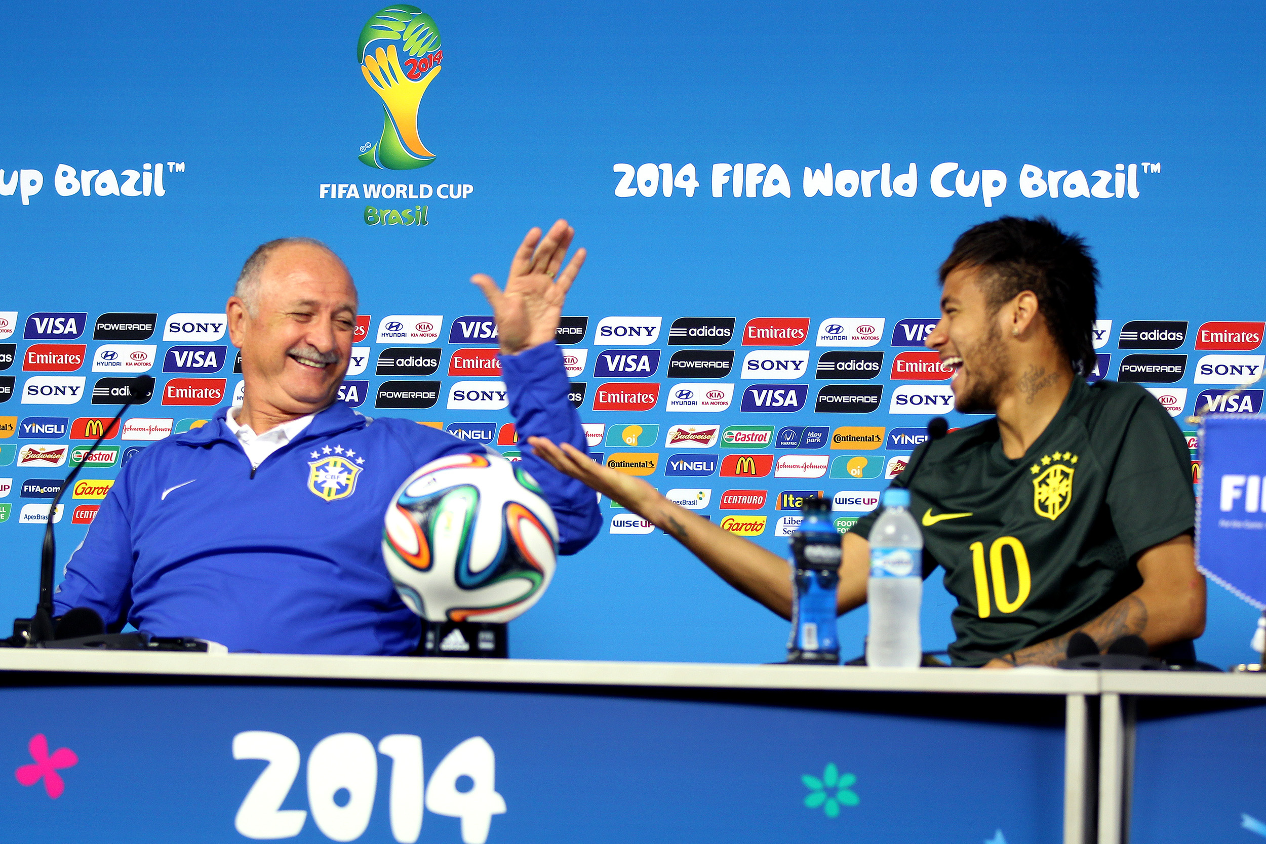 Brazil national team training for 1 day before the start of the first game of the 2014 World Cup qualifier against Croatia 2014-06-11